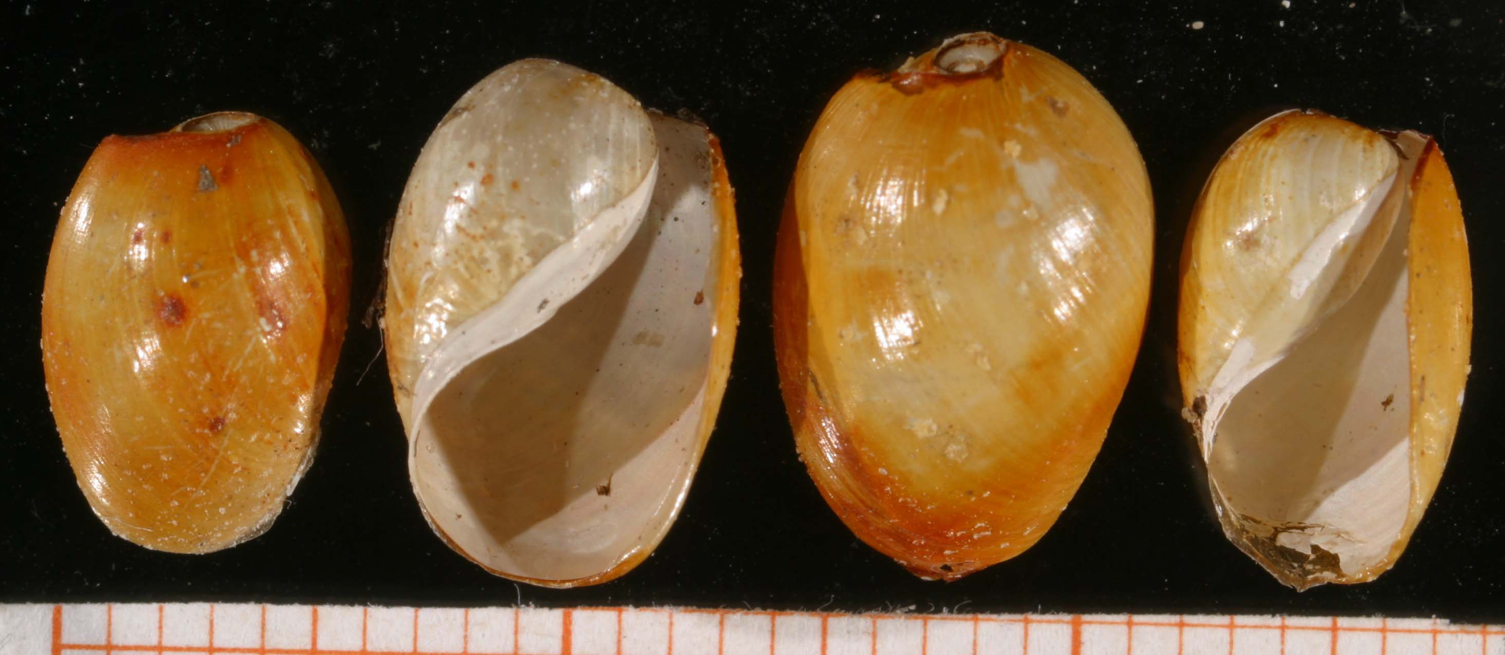 Photo of shells of Akera bullata. Scale in mm. Locality: Germany: Kieler Bucht. Date: 1888.